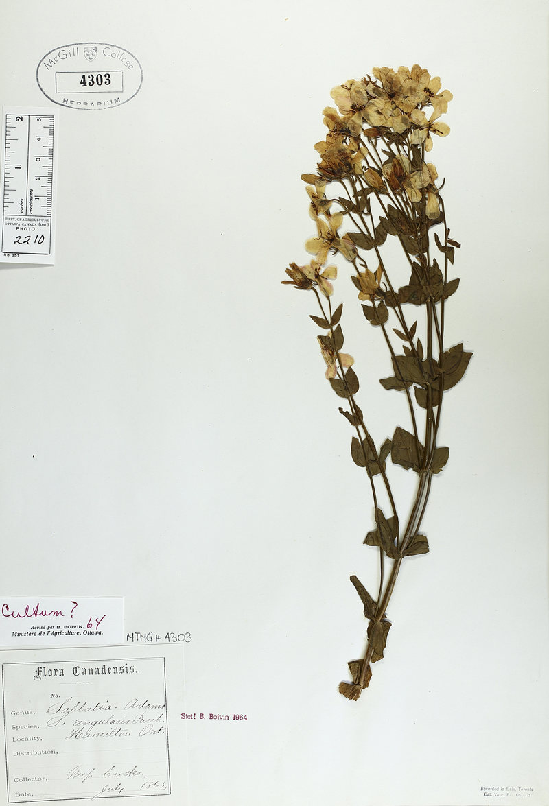 1865 press by Kate Criooks of Sabatia angularis